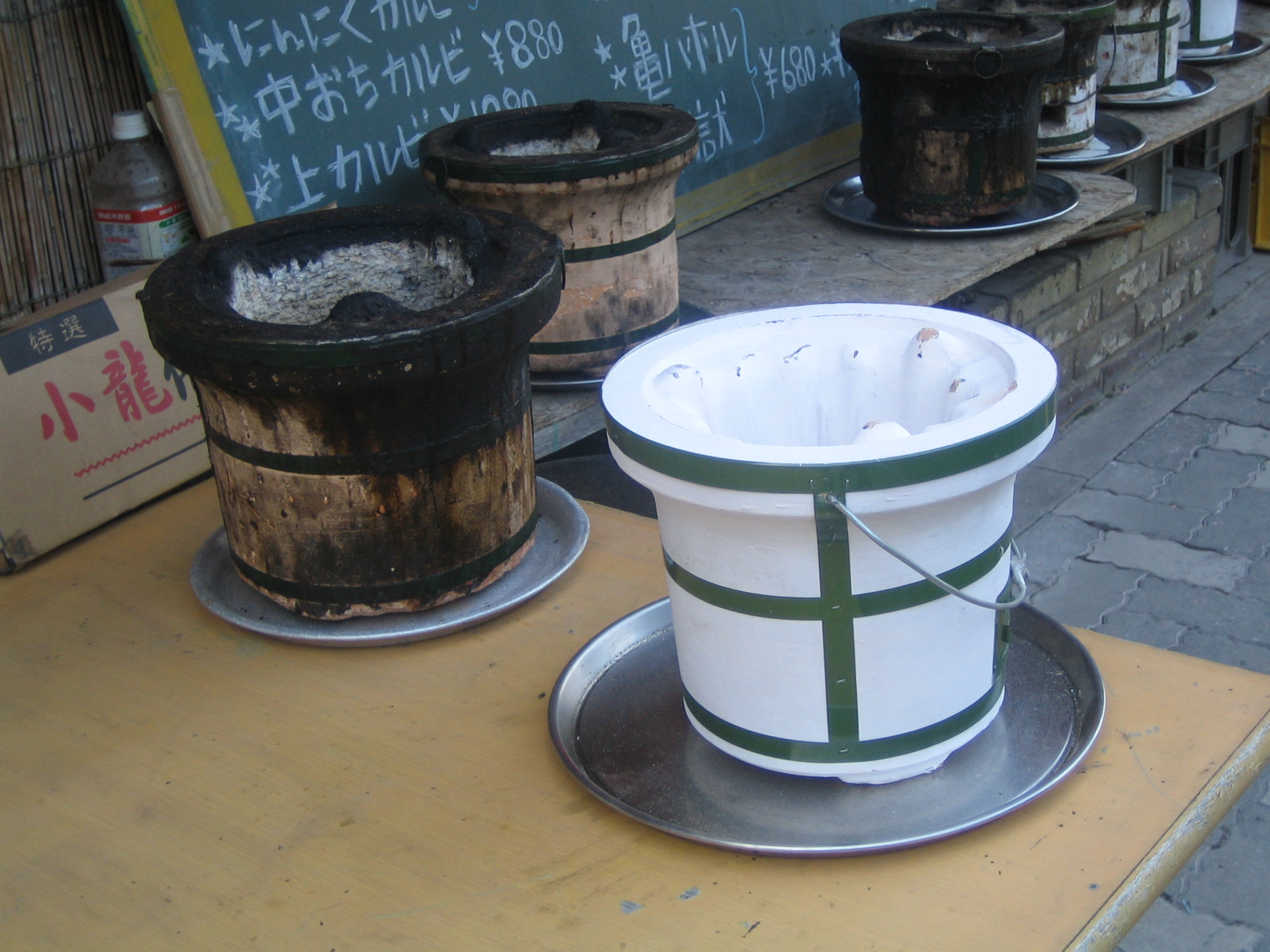 Shichirin (七輪)